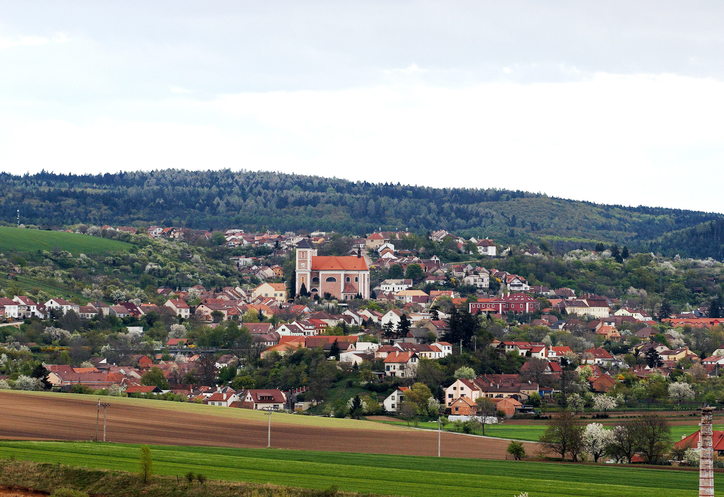 Villages Sivice and Pozořice from Santon